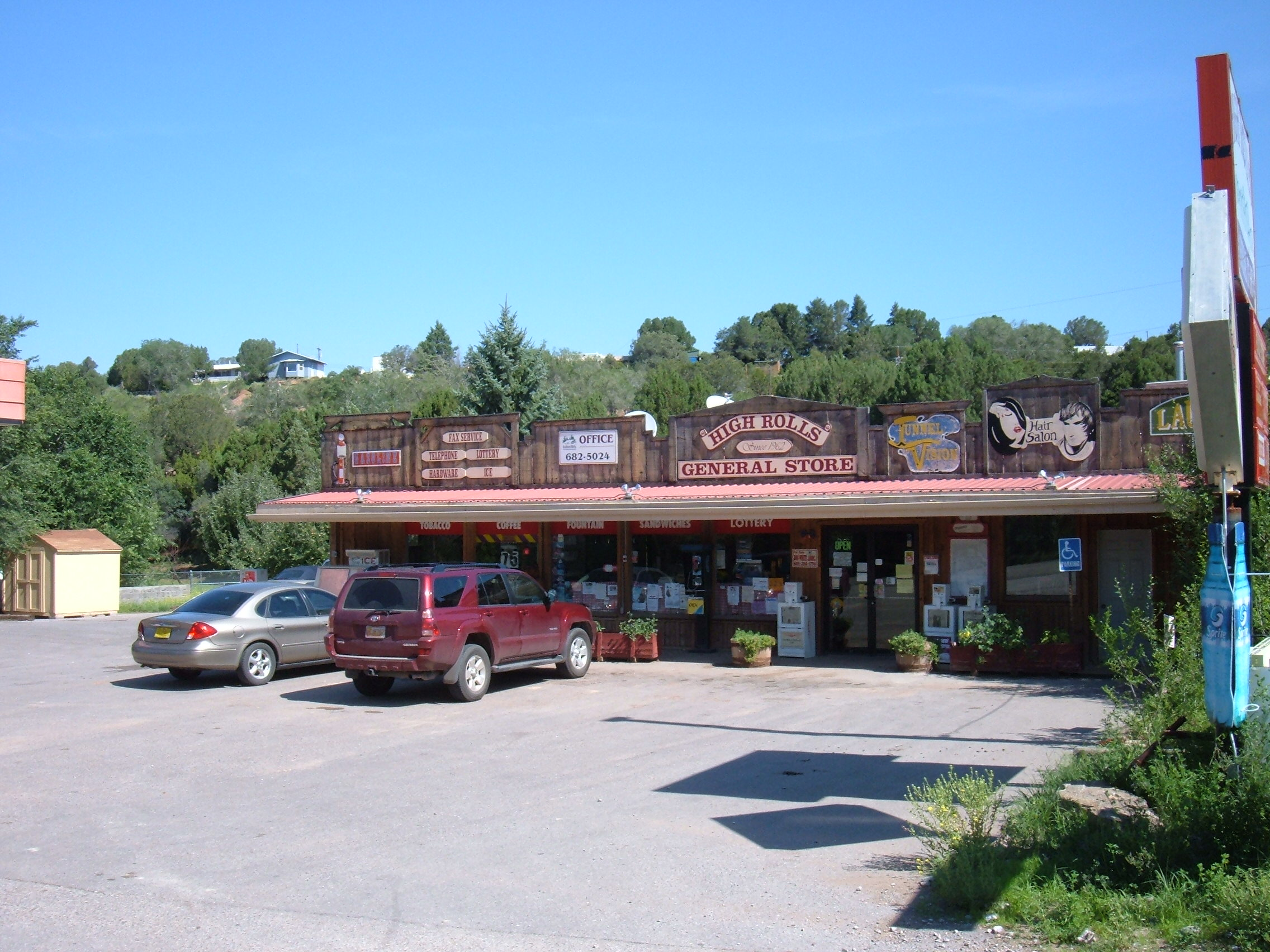 The High Rolls General Store in High Rolls, New Mexico. Located at 845 Highway 82.